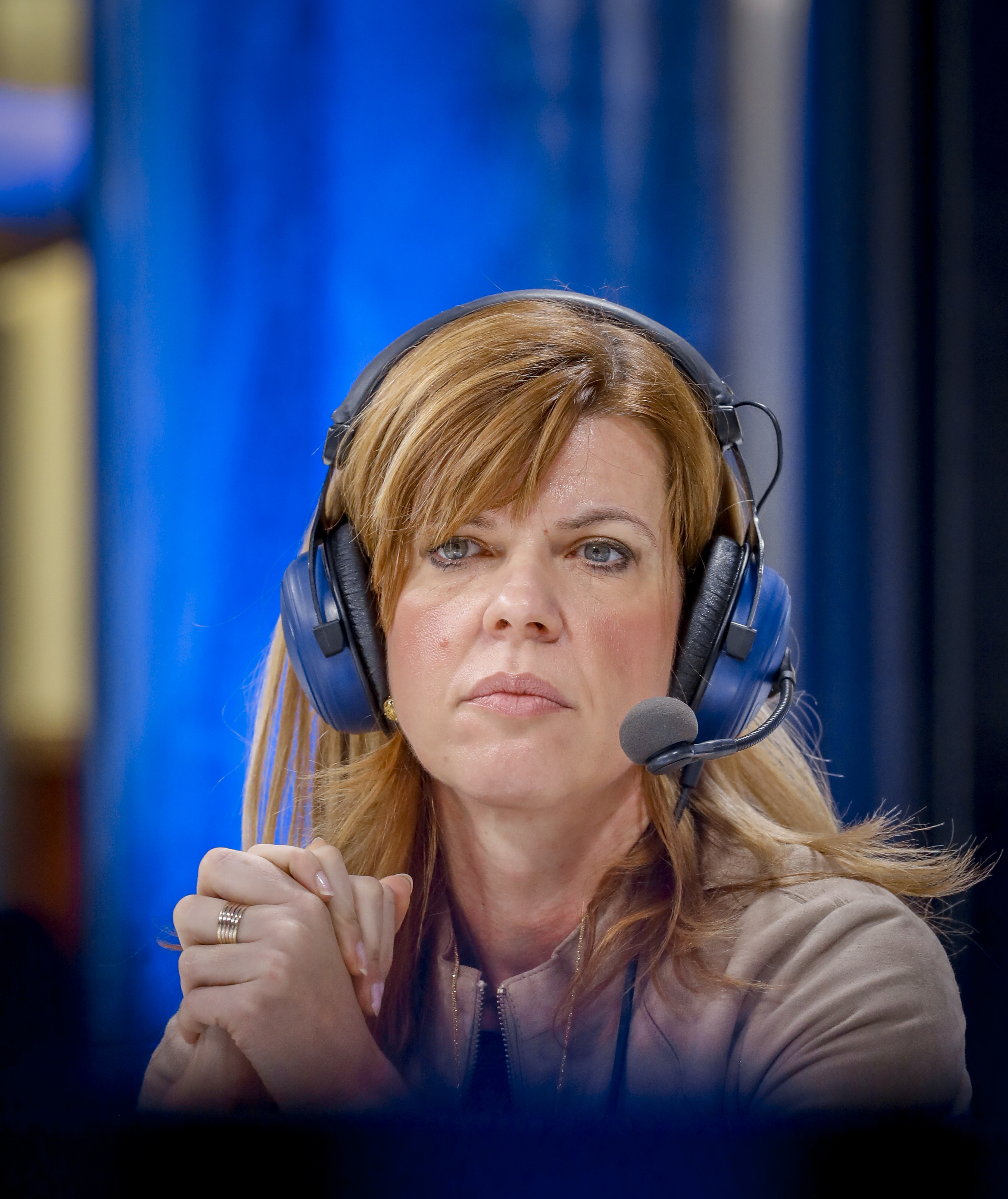 Working nine to five, it’s not a way to make a living. At least, if you’re a woman, your terms and conditions in Europe may not be as good as your male counterparts. The Euranet Plus radio network brought you a live studio debate from the European Parliament to discuss EU labour markets. Get the guest list, the audio and video recordings of the debate and all other details at Part 1/2 | Croatian | moderator Barbara Peranić | guests: - Biljana BORZAN, MEP, Croatia, Group of the Progressive Alliance of Socialists and Democrats in the European Parliament, @BiljanaBorzan - Dubravka ŠUICA, MEP, Croatia, Group of the European People’s Party (Christian Democrats) @dubravkasuica - Ivan JAKOVČIĆ, MEP, Croatia, Group of the Alliance of Liberals and Democrats for Europe, @IvanJakovcic - Dragica MARTINOVIĆ, Member of the European Economic and Social Committee, Employers’ Group (Group I), Director of the Representative Office of the Croatian Chamber of Economy in Brussels